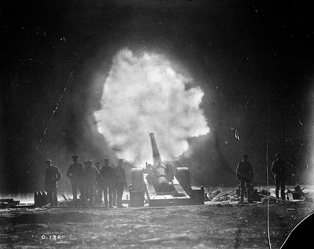 (W.W.I - 1914 - 1918) 6-inch Naval gun on "Percy Scott" carriage, firing over Vimy Ridge behind Canadian lines at night.